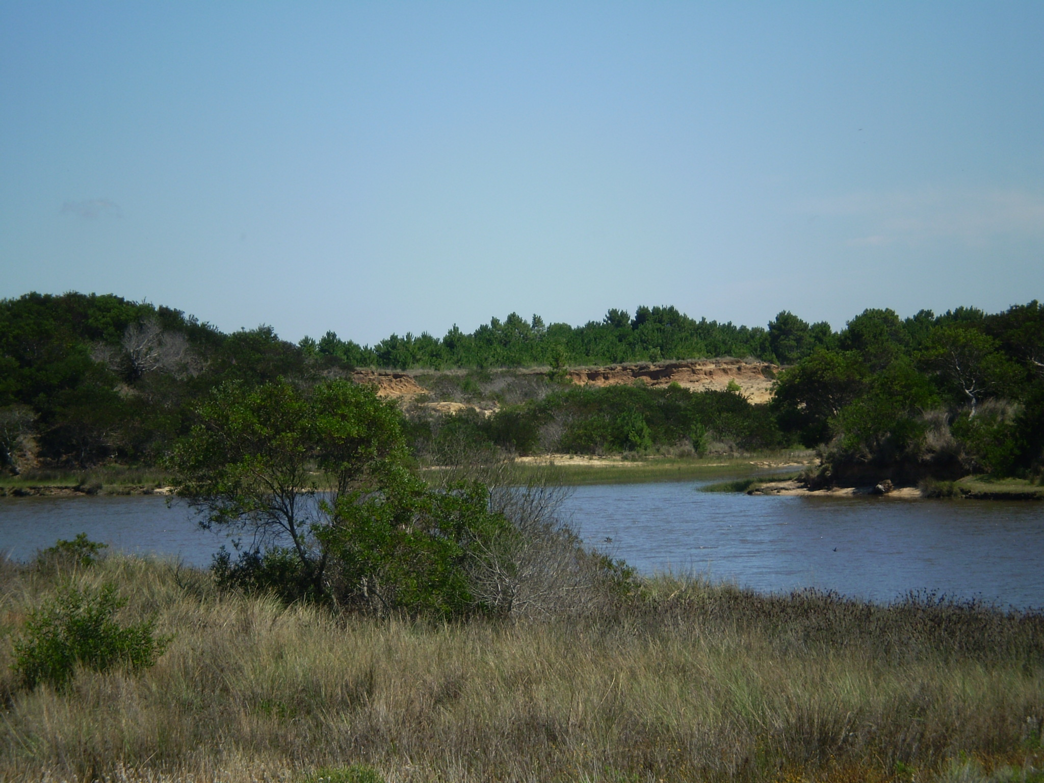 Arroio Chuí, view from the bridge of the border Uruguay-Brazil, in the district Barra do Chuí, Santa Vitória do Palmar, Rio Grande do Sul, Brazil.